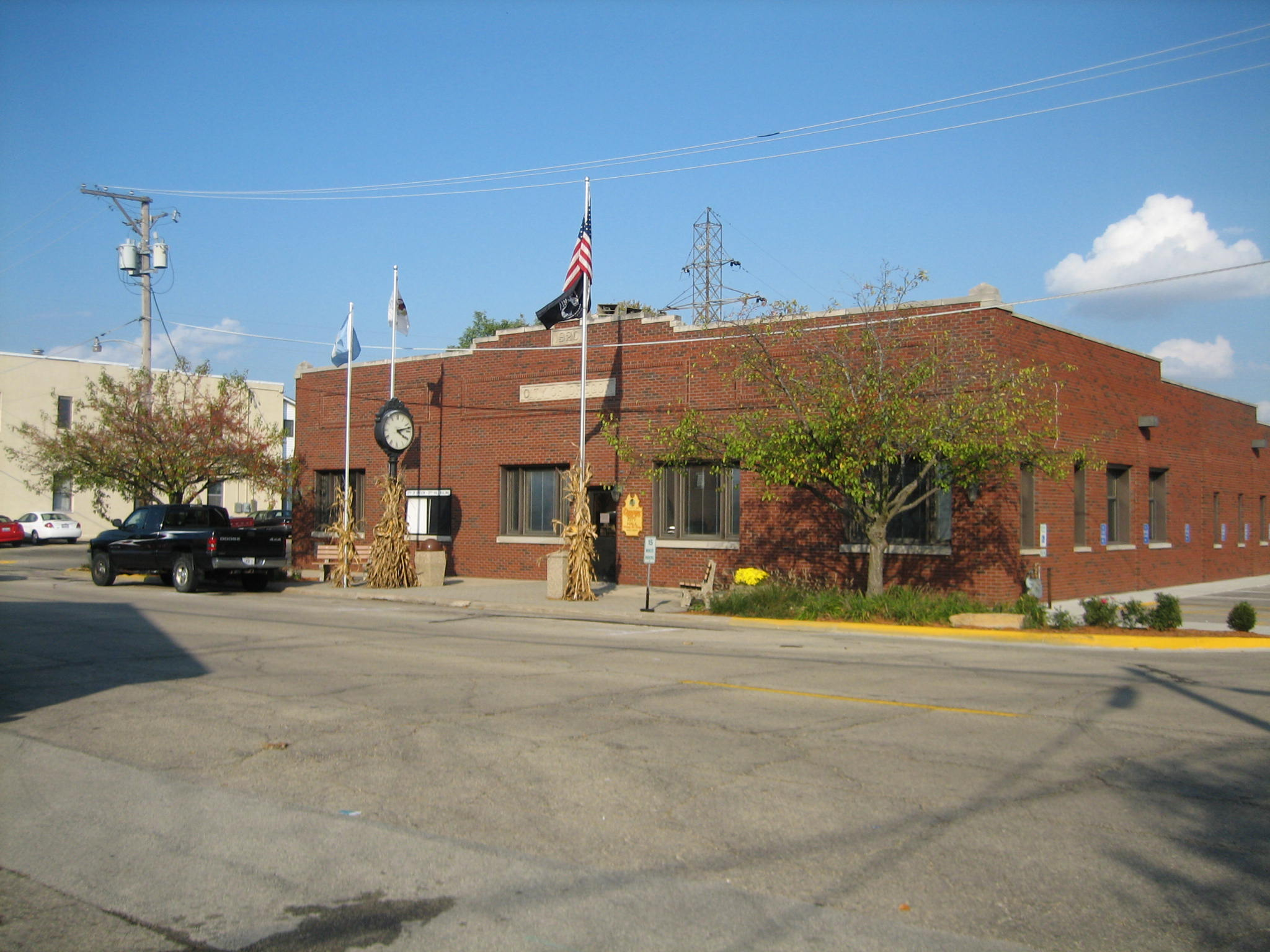 Oregon, Illinois, United States. Oregon City Hall. Contributing property within the Oregon Commercial Historic District. National Register of Historic Places